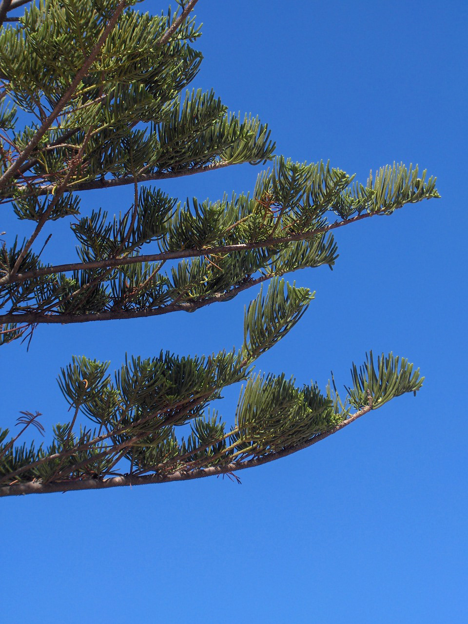 Araucaria heterophylla (close-up); Sines, Portugal